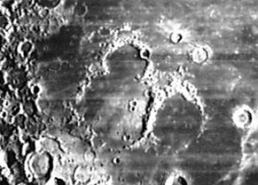 Struve is at the center of the image, above it - crater Russel, to the right side - Eddington. Lunar Orbiter IV image LOIV 174 M.